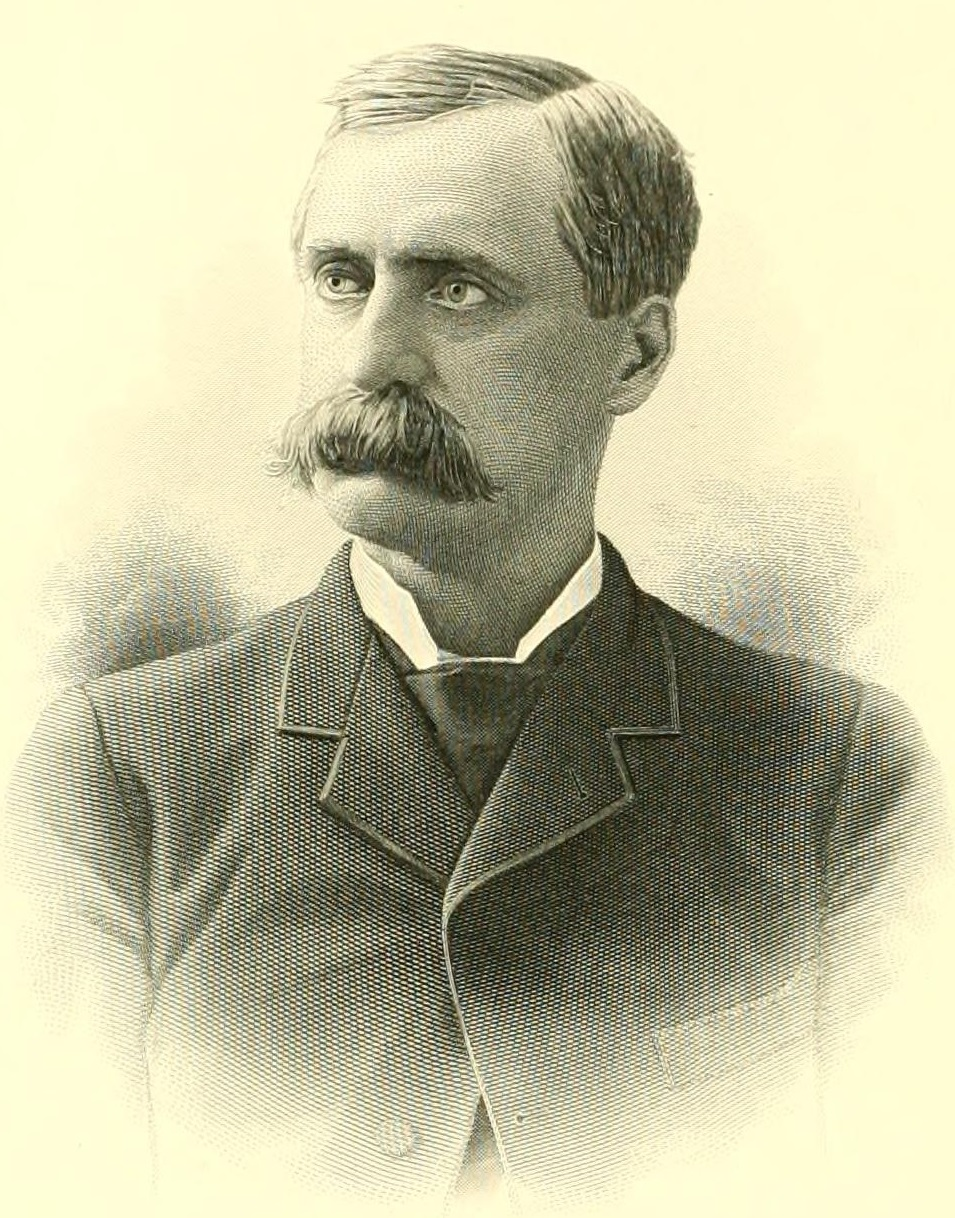 John Rankin Gamble, Congressman from South Dakota